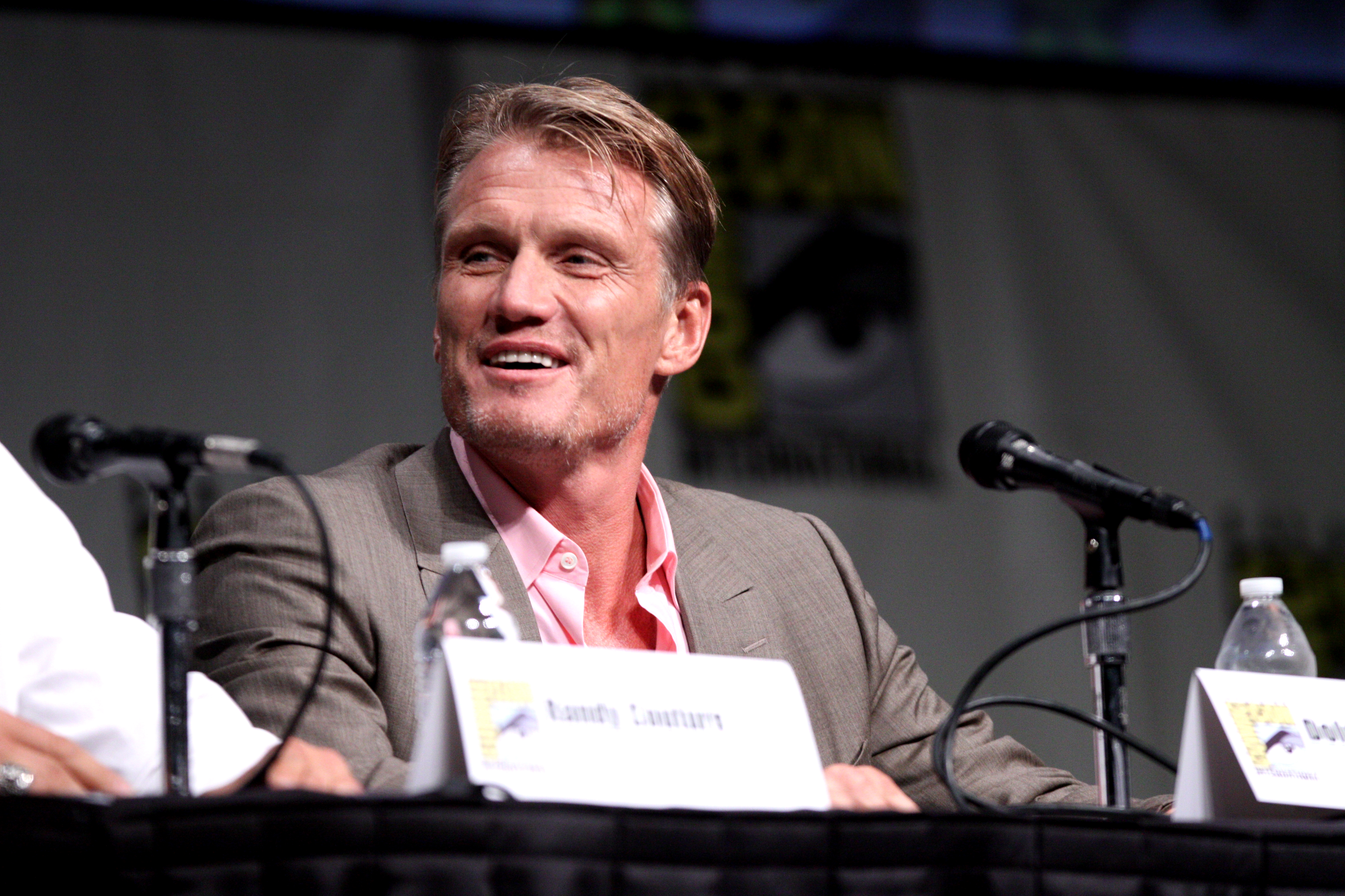 Dolph Lundgren speaking at the 2012 San Diego Comic-Con International in San Diego, California.